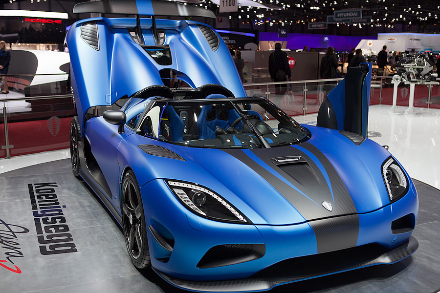 Motorshow Geneva 2012